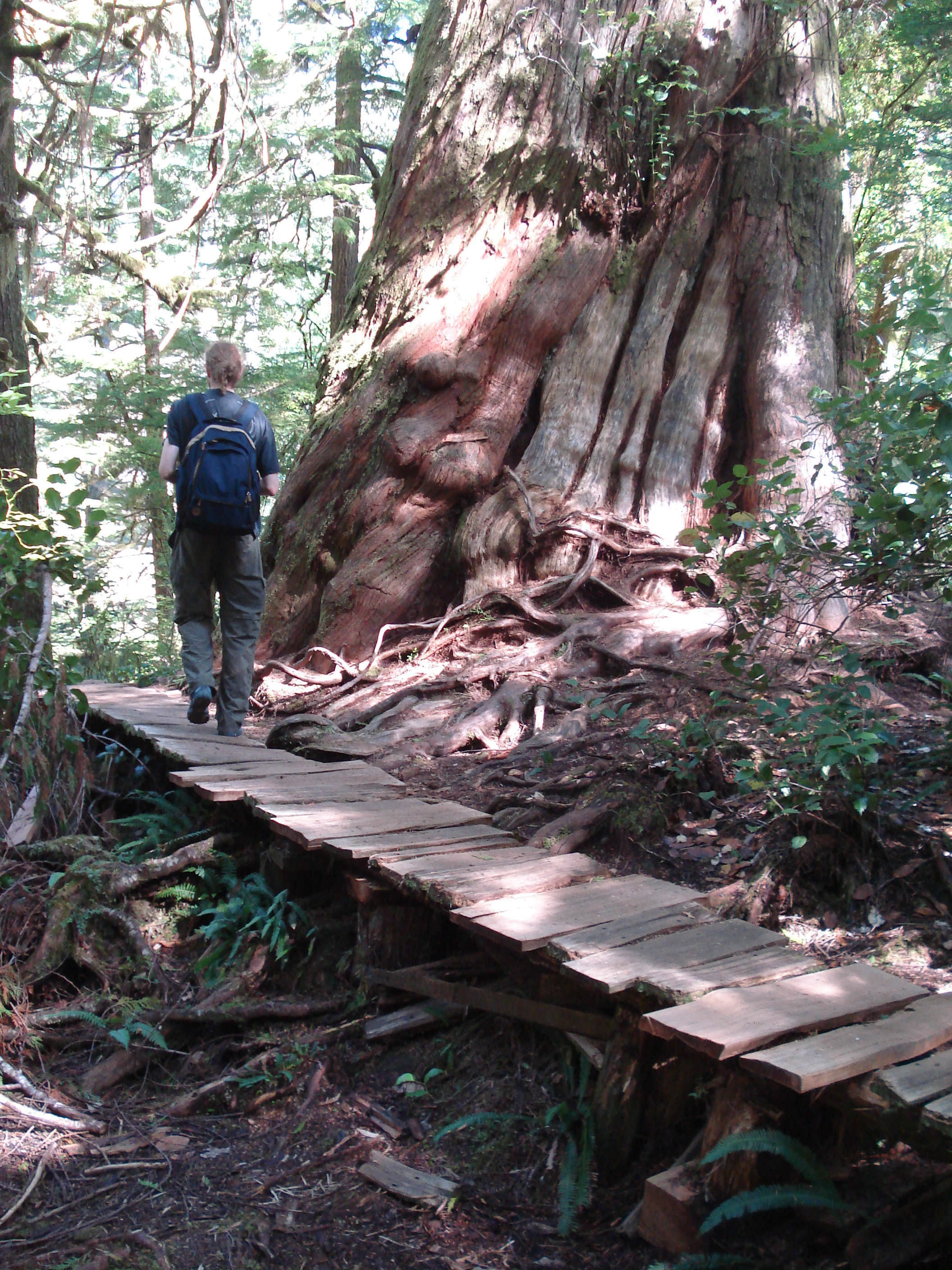 A giant Thuja plicata on Meares Island, Clayoquot Sound, British Columbia